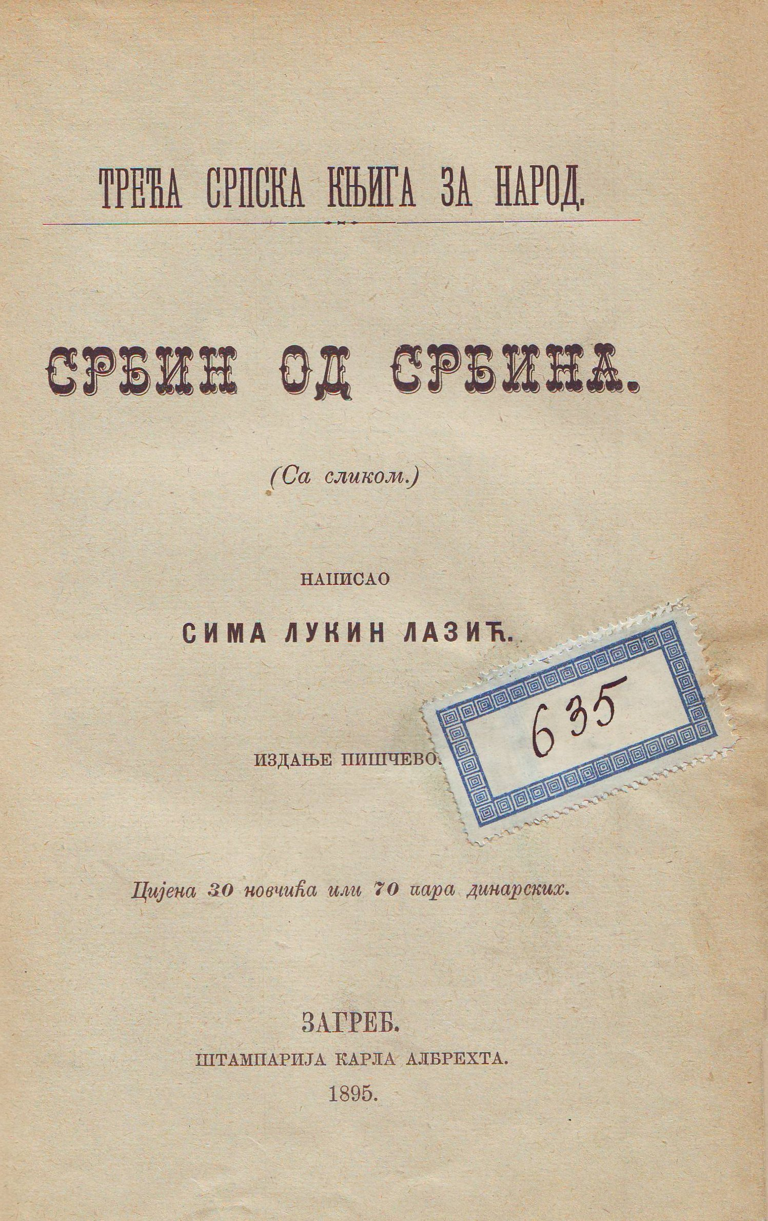 Cover of Srbin od Srbina (1895) by Sima Lukin Lazić. Srpski (latinica): Naslovna strana knjige Srbin od Srbina (1895) Sime Lukina Lazića.